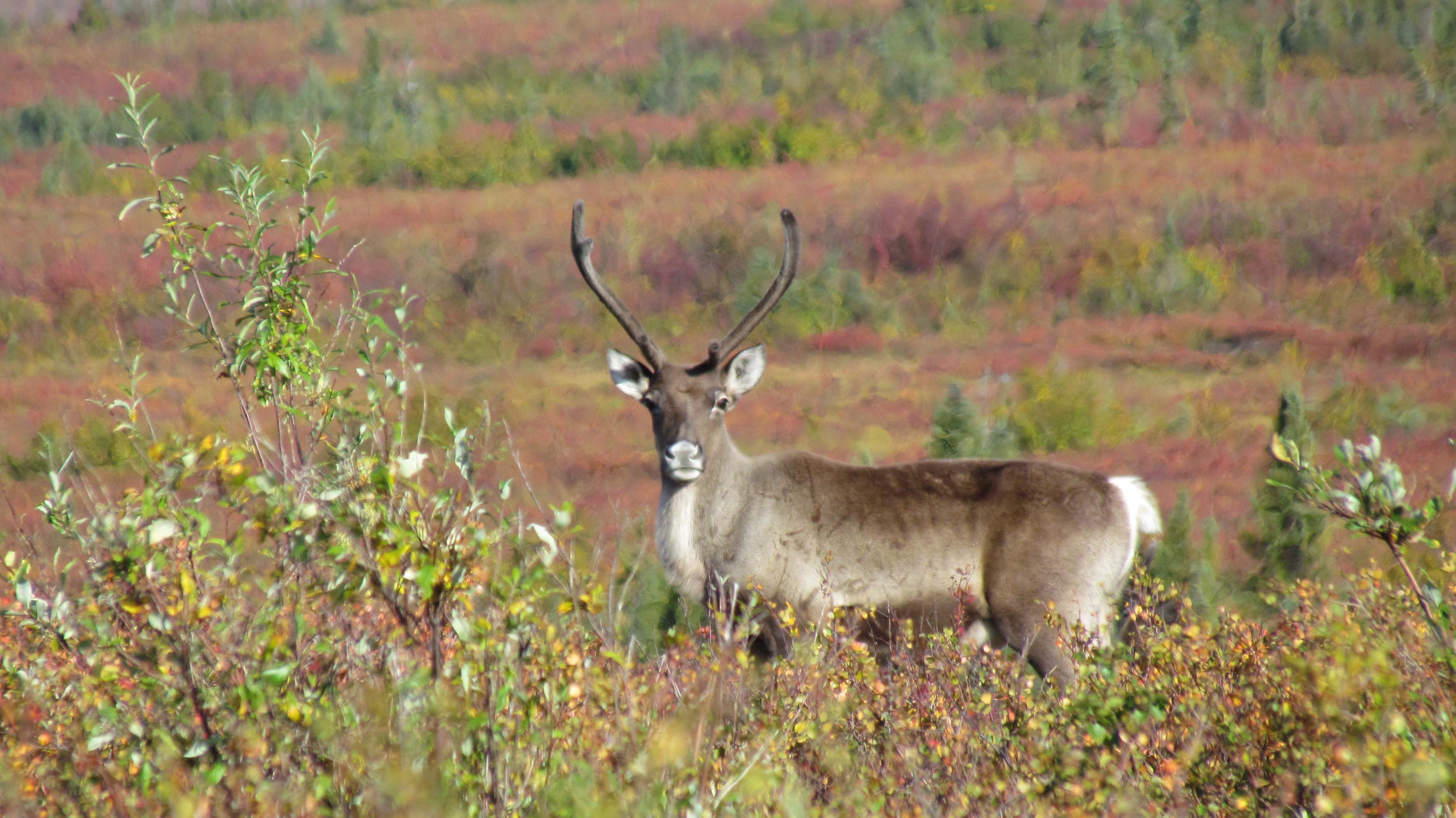 A single caribou captured by a photographer on its fall migration south across Kobuk Valley National Park. Several hundred throusand in the Western Arctic Caribou Herd are doing the same thing. Single caribou with antlers in velvet